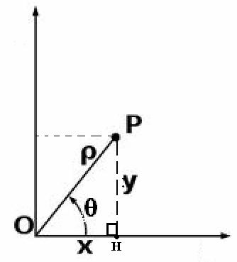 polar coordinates